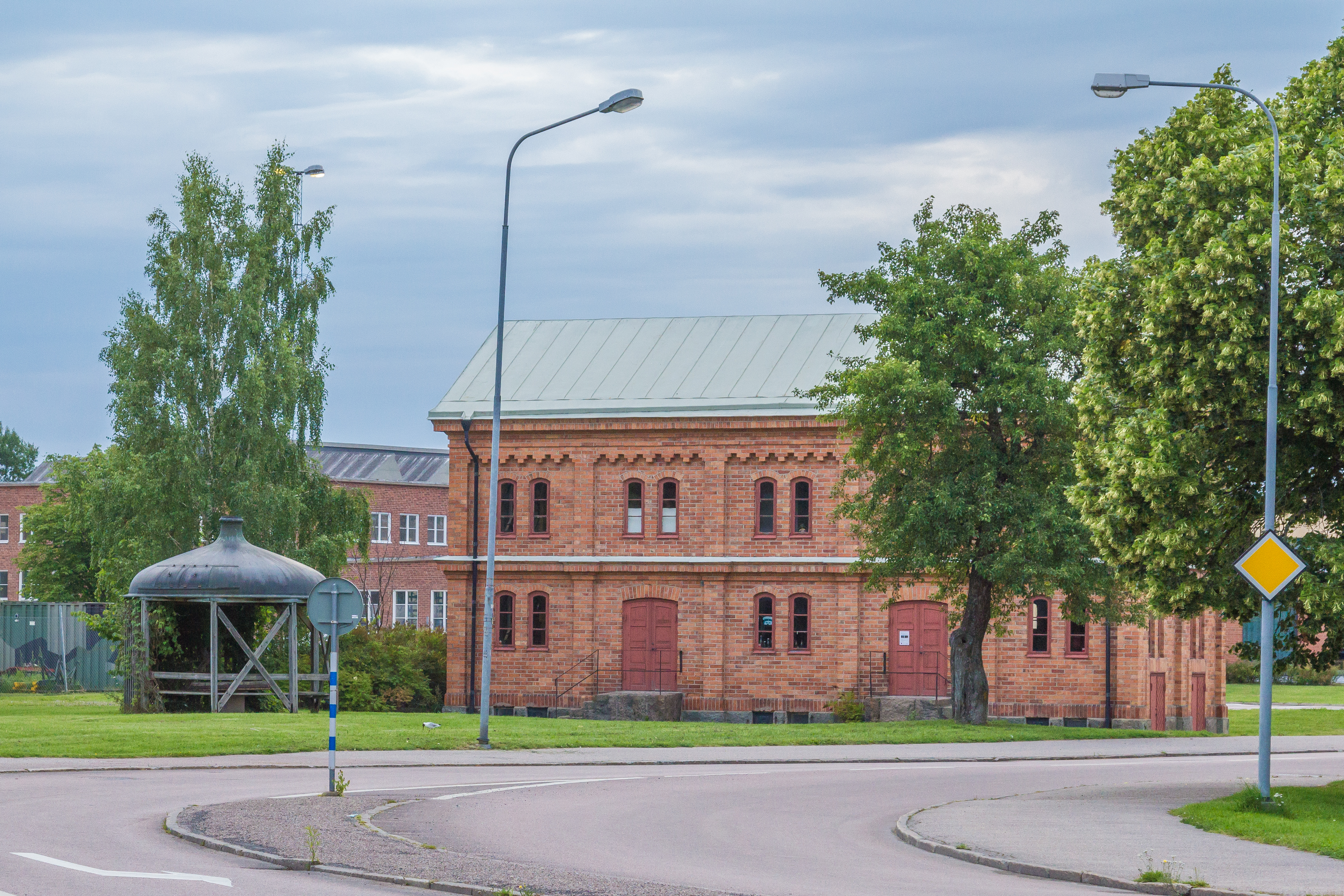 Brewery museum of Arboga, Västmanland County, Sweden